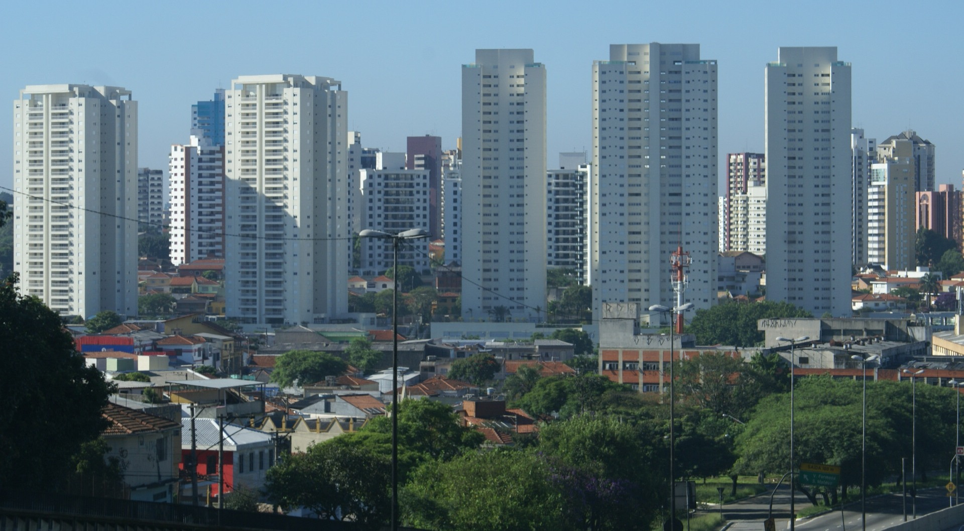 Jardim Avelino neighborhoods, in São Paulo City, Brazil.